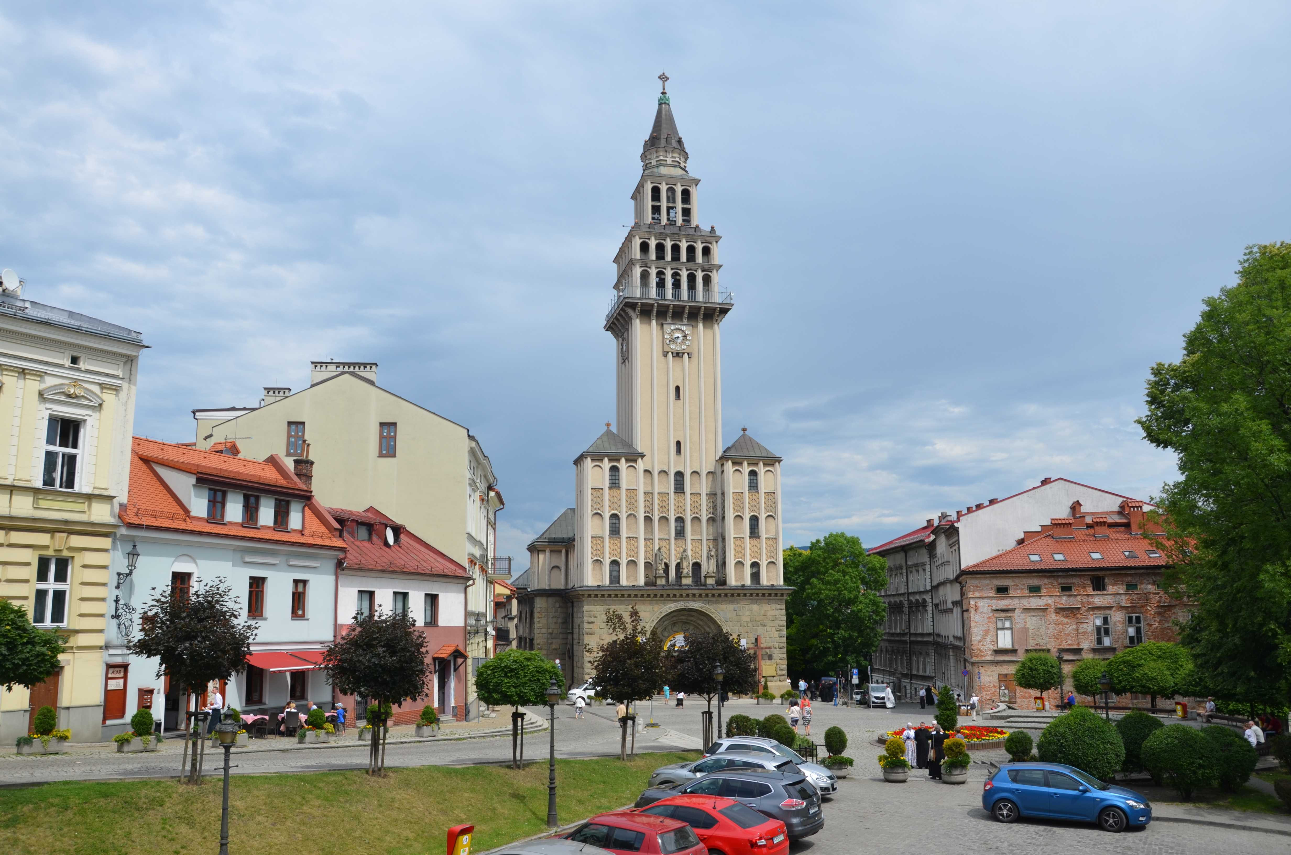 Kirchvorplatz in Bielitz